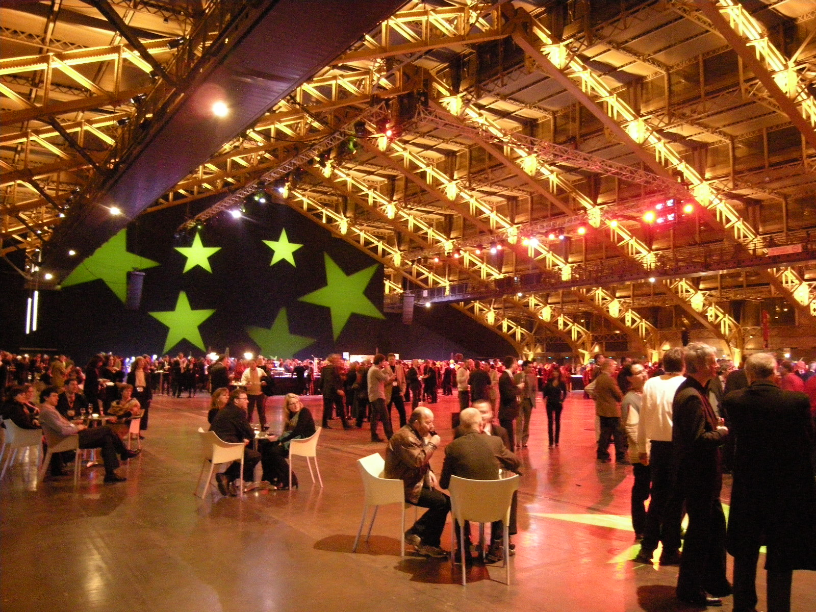 Cocktail de boas vindas do ICT 2008 - "Europe's biggest research event for information and communication technologies"